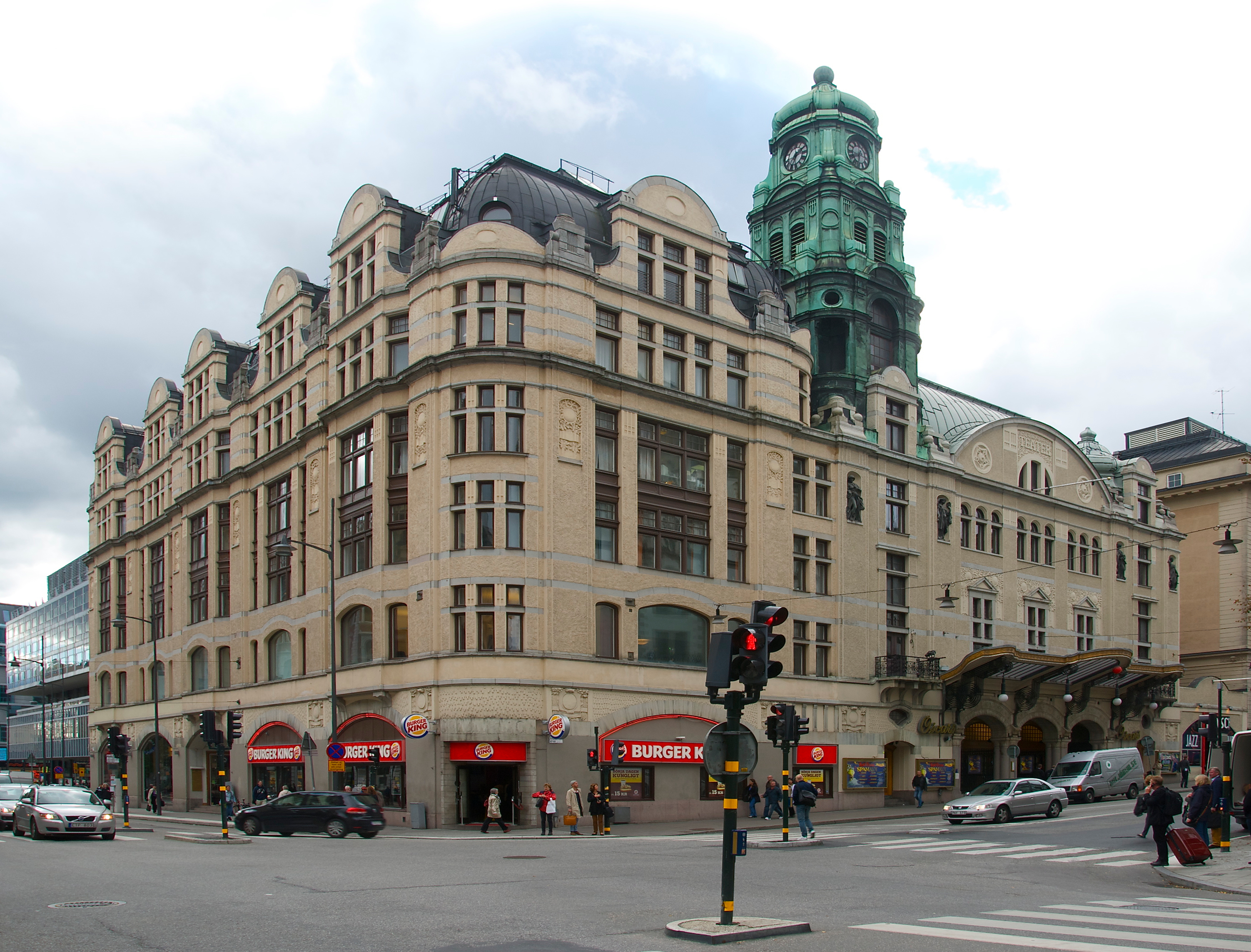 Kungsbropalatset